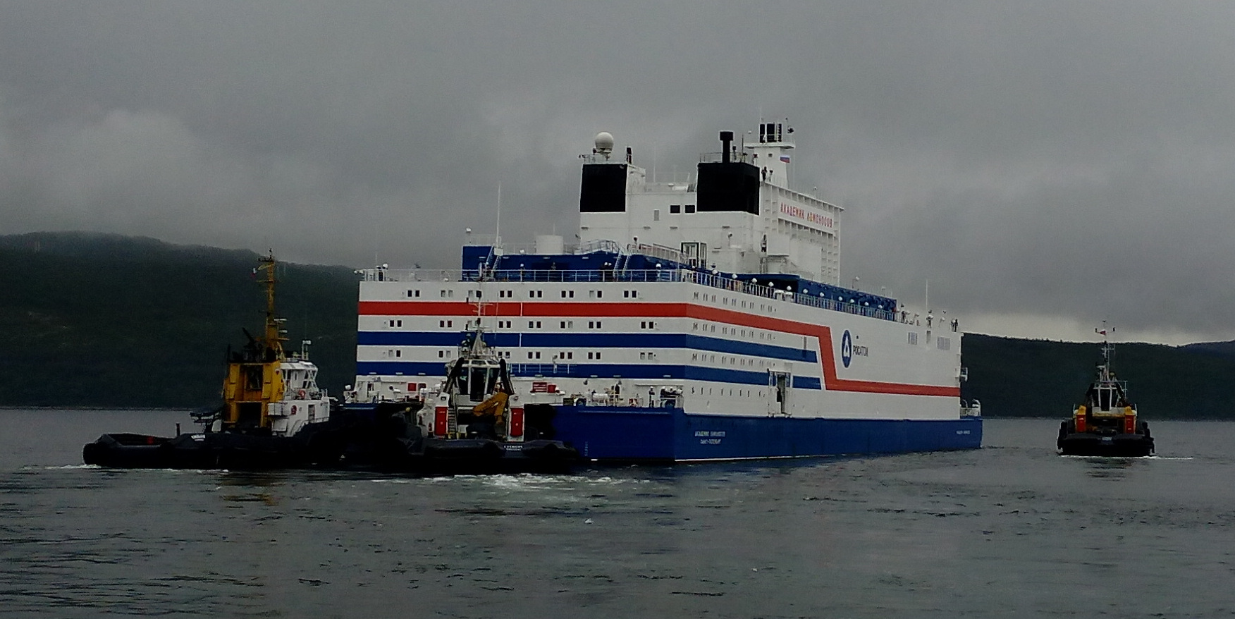 The first Russian floating nuclear power station, Akademik Lomonosov, being transported, 23 August 2019. This is a cropped version of the photo that Elena Dider published with the license CC BY-SA 4.0 (